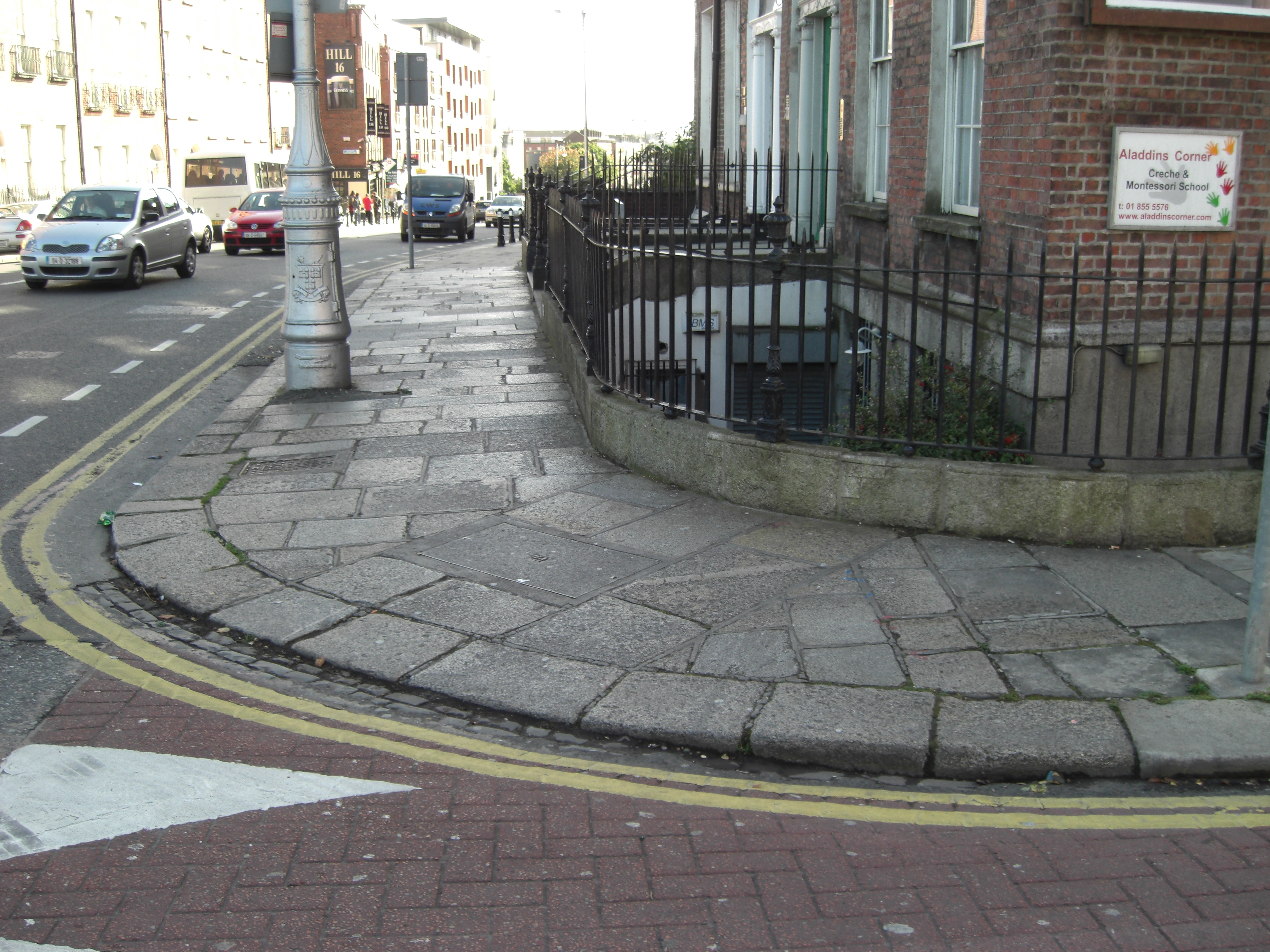 Photo of the last corner of Mountjoy Square, Dublin, Ireland which has original, continuous granite paving. This is the corner of Grenville Street and Gardiner Street, ie Mountjoy Square West. The house is 54 Mountjoy Square.